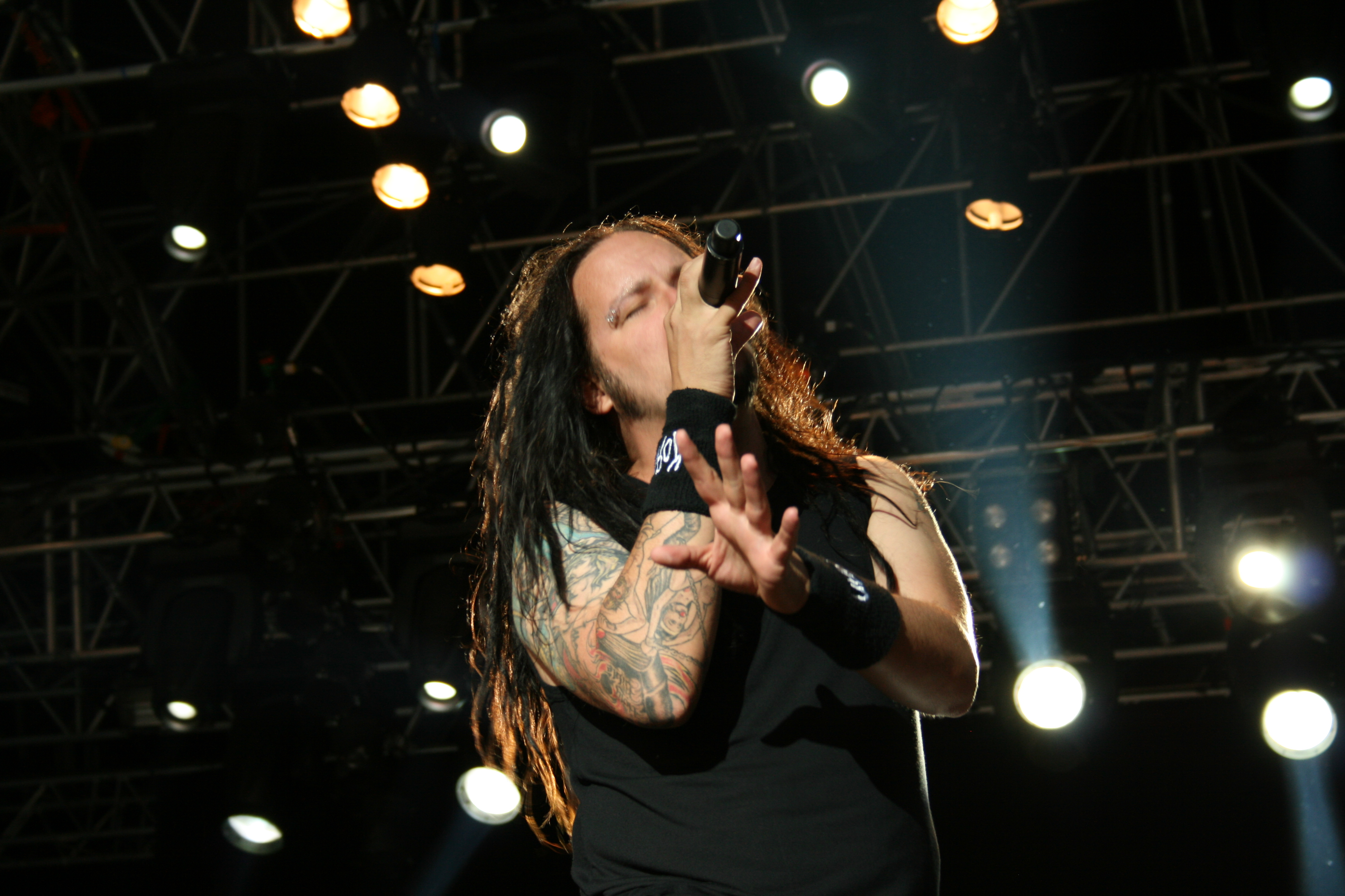 Korn at Quart festival 2009, Kristiansand Norway